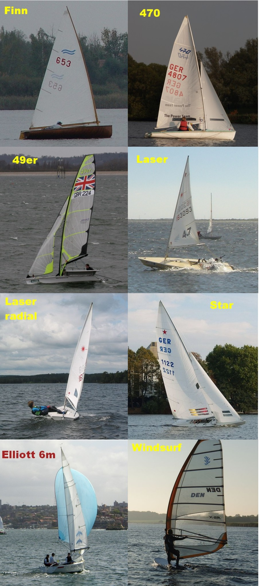 Olympic sailing classes